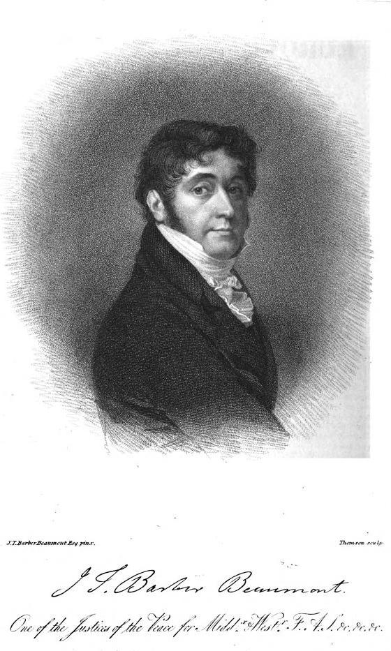 Portrait of John Thomas Barber Beaumont John Thomas Barber Beaumont (1774-1841), English artist and businessman.